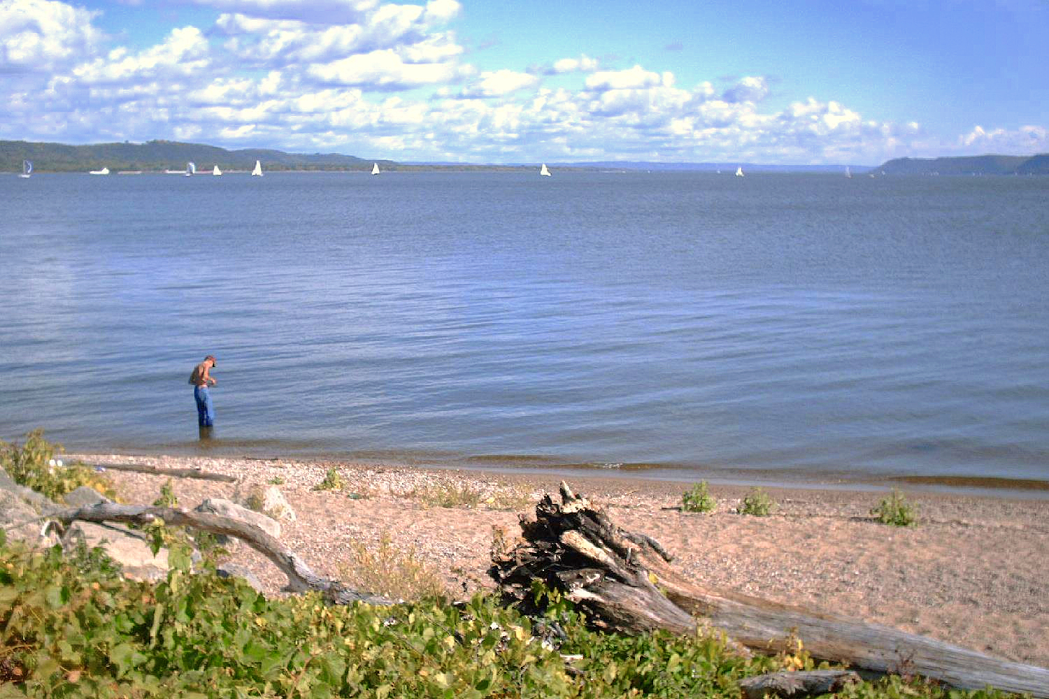 Lake Pepin on the Mississippi River, looking out from the pier at Lake City, Minnesota.